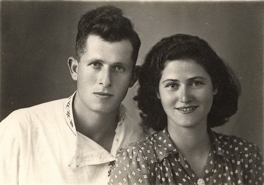 Asaf and Delila Simchoni in Tel-Yosef, 1944